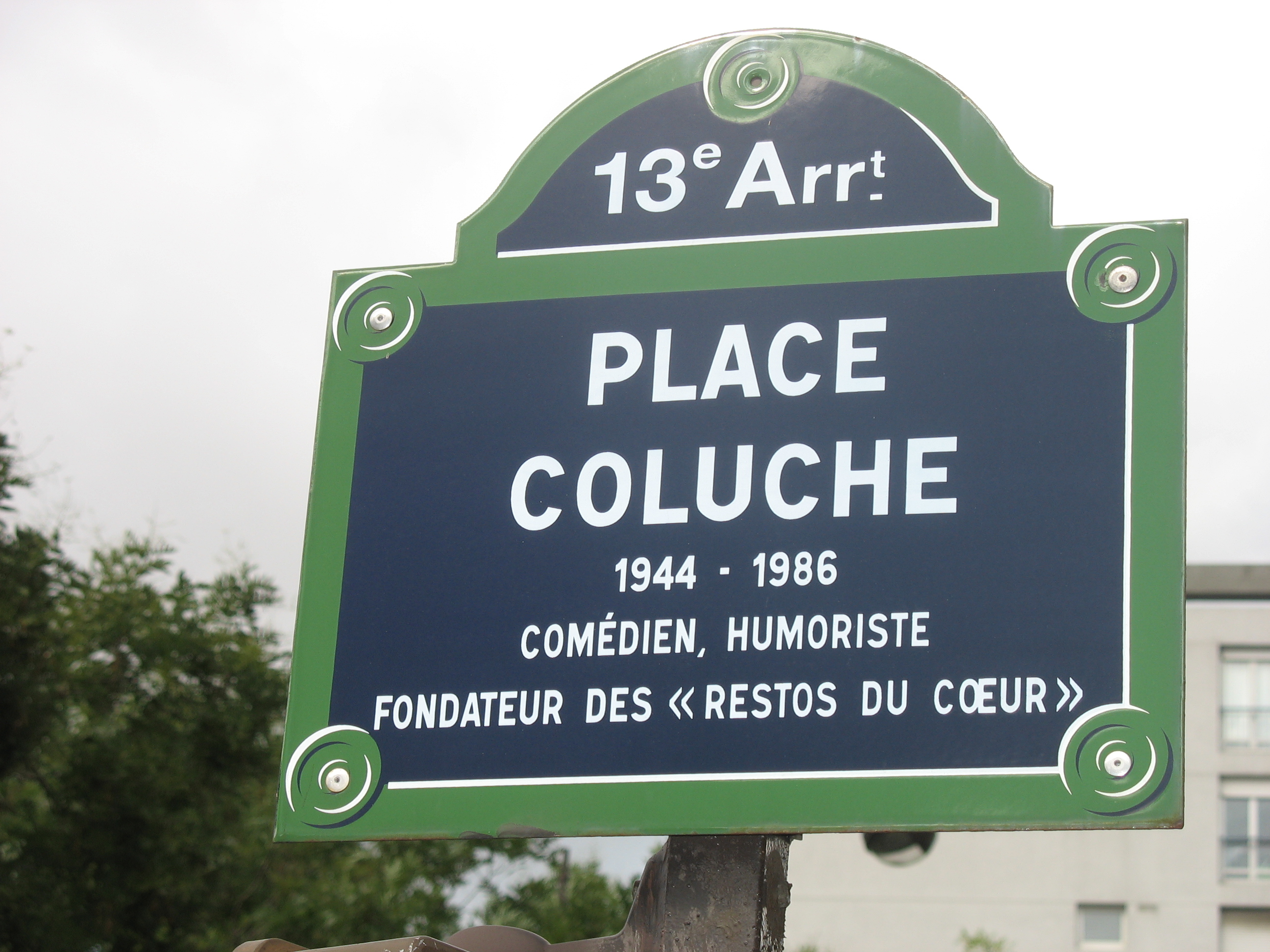 Street Sign